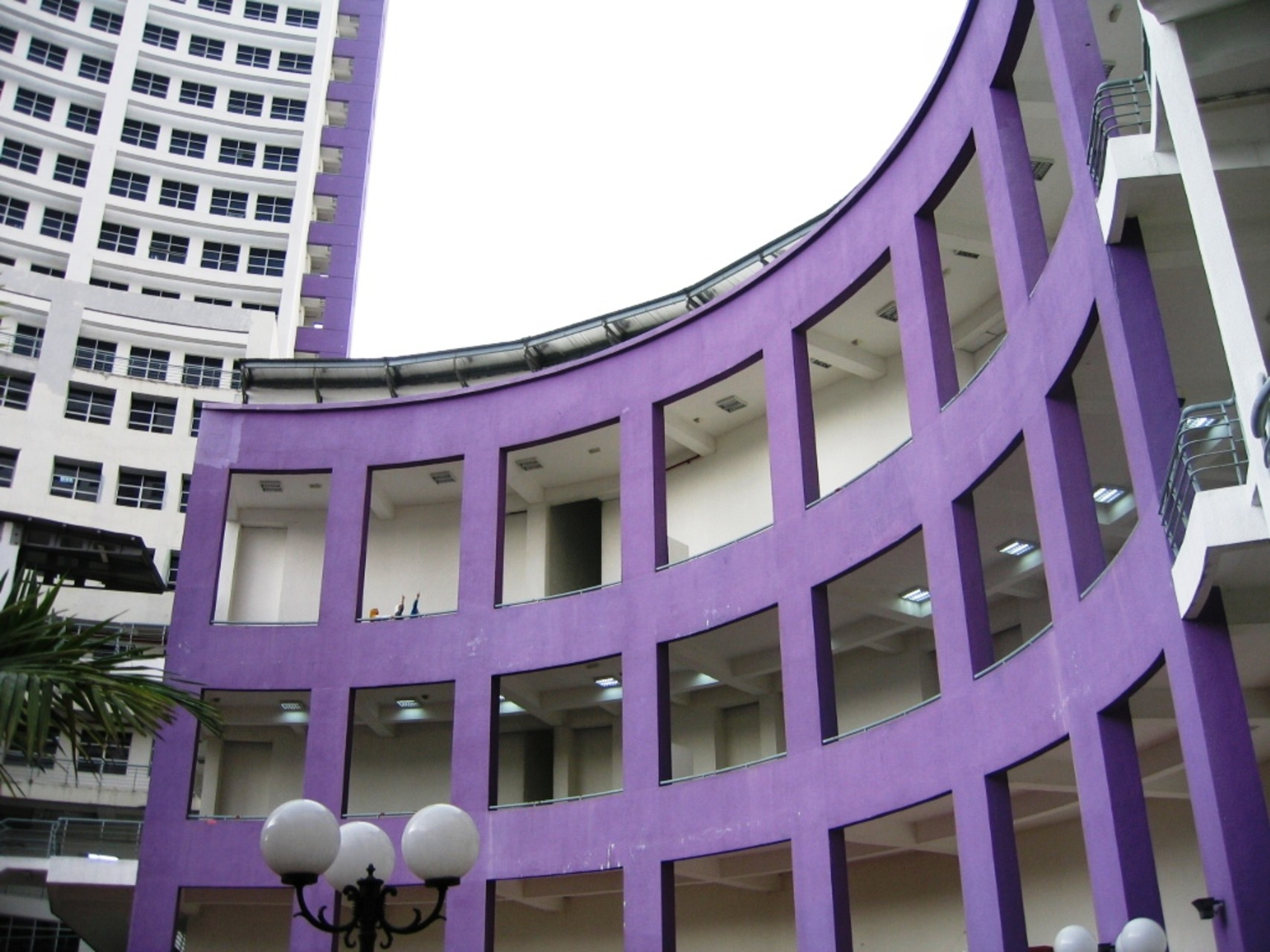 Lecture hall